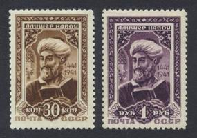 USSR stamps, Ali-Shir Nava'i (designed by Ivan Dubasov), 1942, 30 kopecks and 1 rouble, CPA 827—828, Scott 857—858